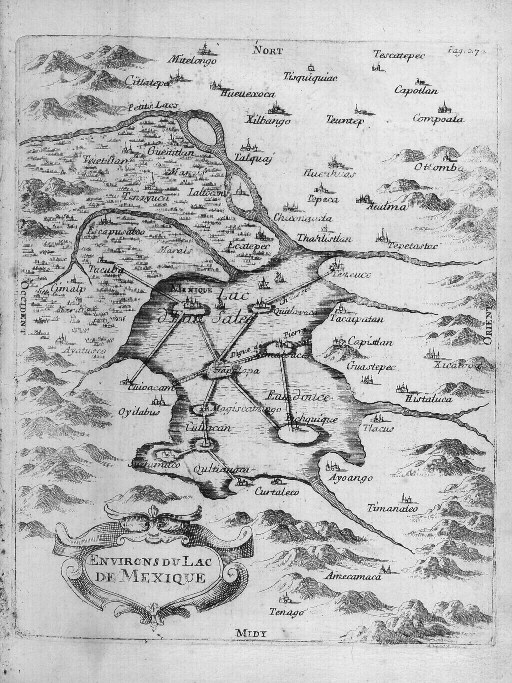 Map of Mexico lake - Copper-plate engraving from Van Beecq